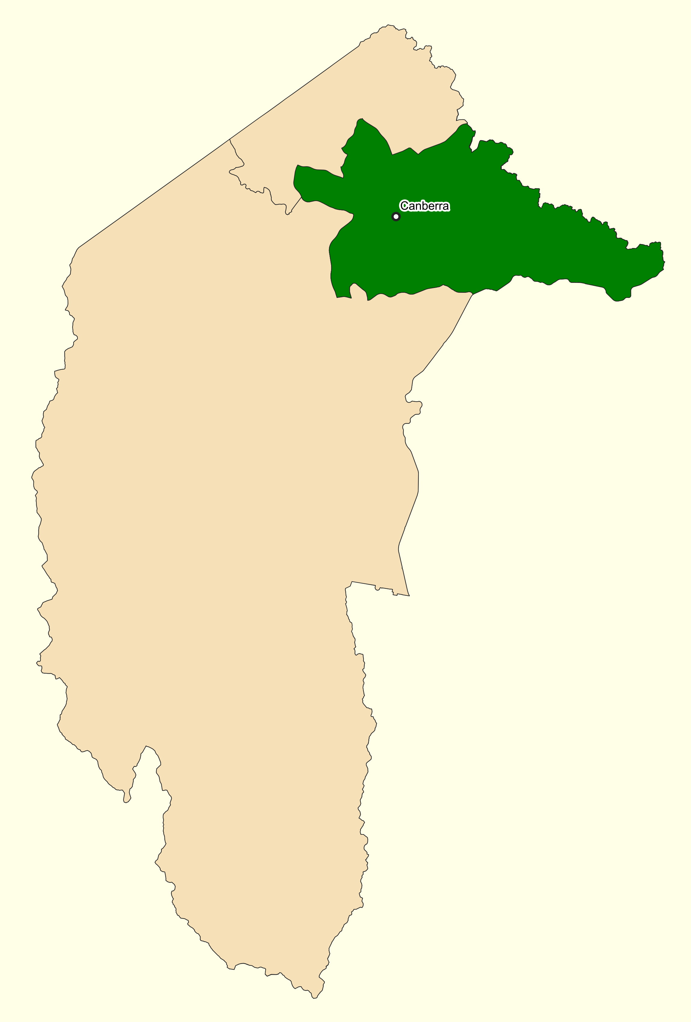 Location of the Australian federal electoral division of Canberra (dark green) in the Australian Capital Territory as of the 2019 Australian federal election. Incorporates or developed using Administrative Boundaries ©PSMA Australia Limited licensed by the Commonwealth of Australia under Creative Commons Attribution 4.0 International licence (CC BY 4.0).